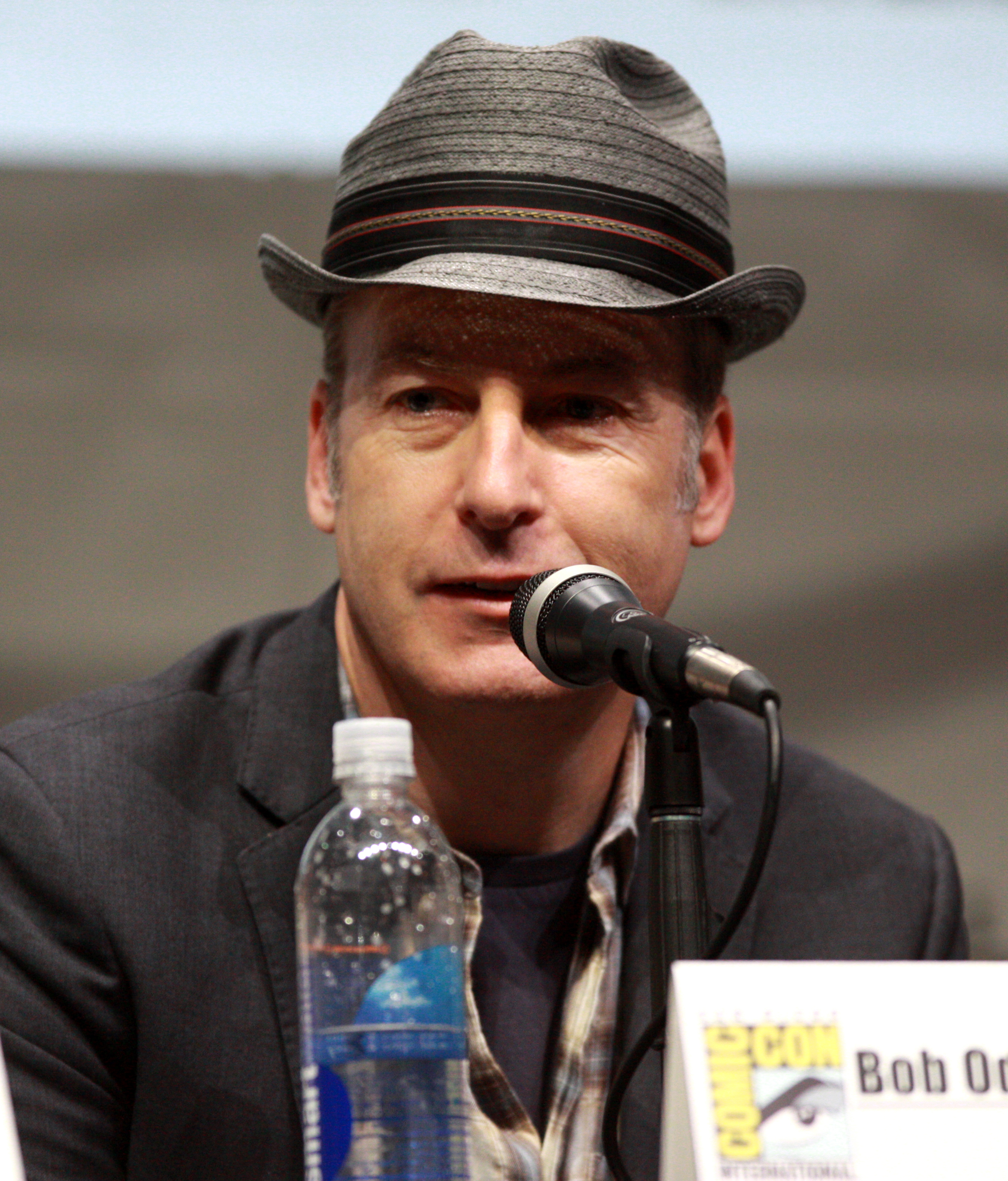 Bob Odenkirk at the 2013 San Diego Comic Con International in San Diego, California.